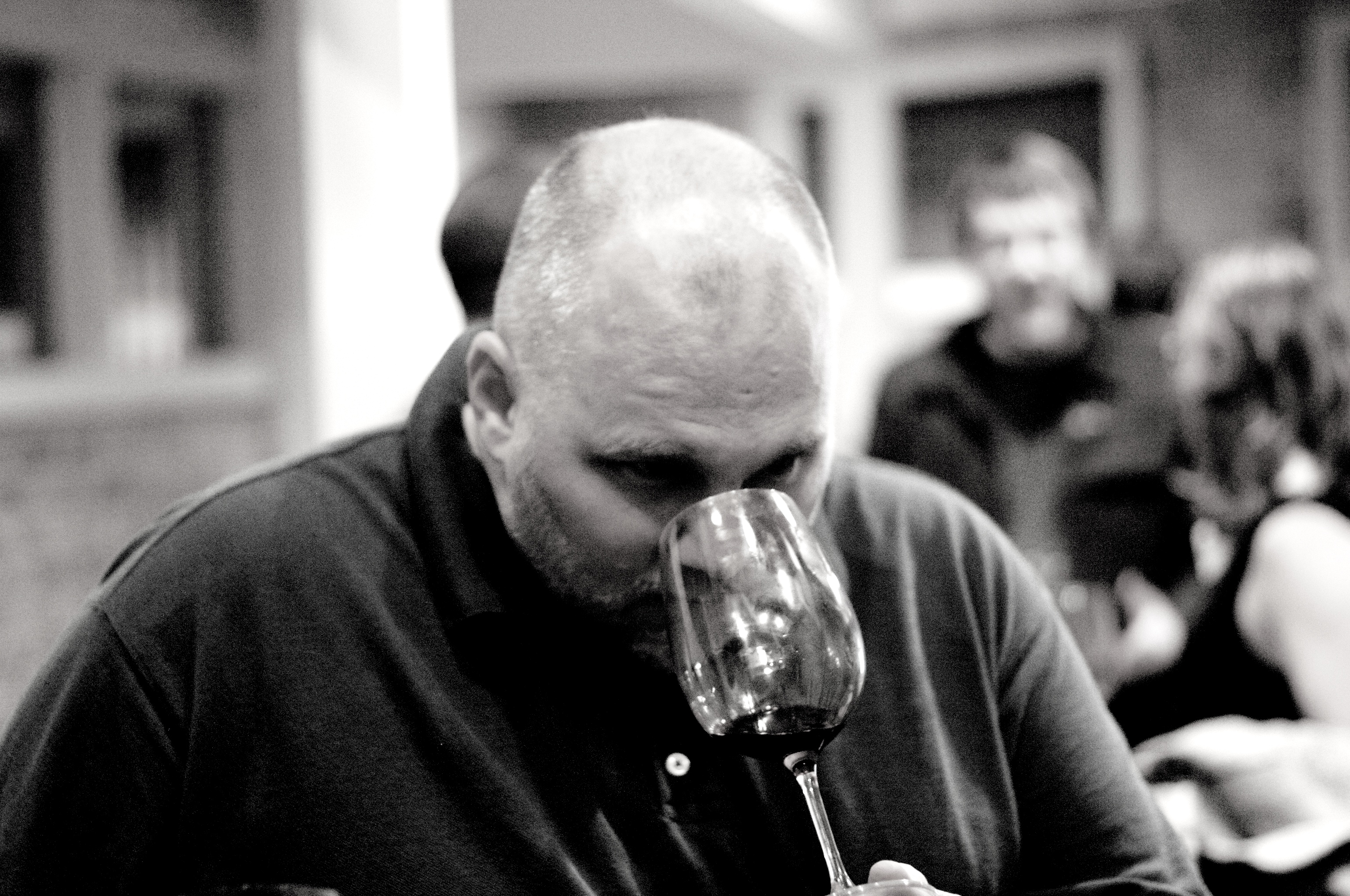 A demonstration of smelling the aromas and bouquet of wine in the glass as part of wine tasting